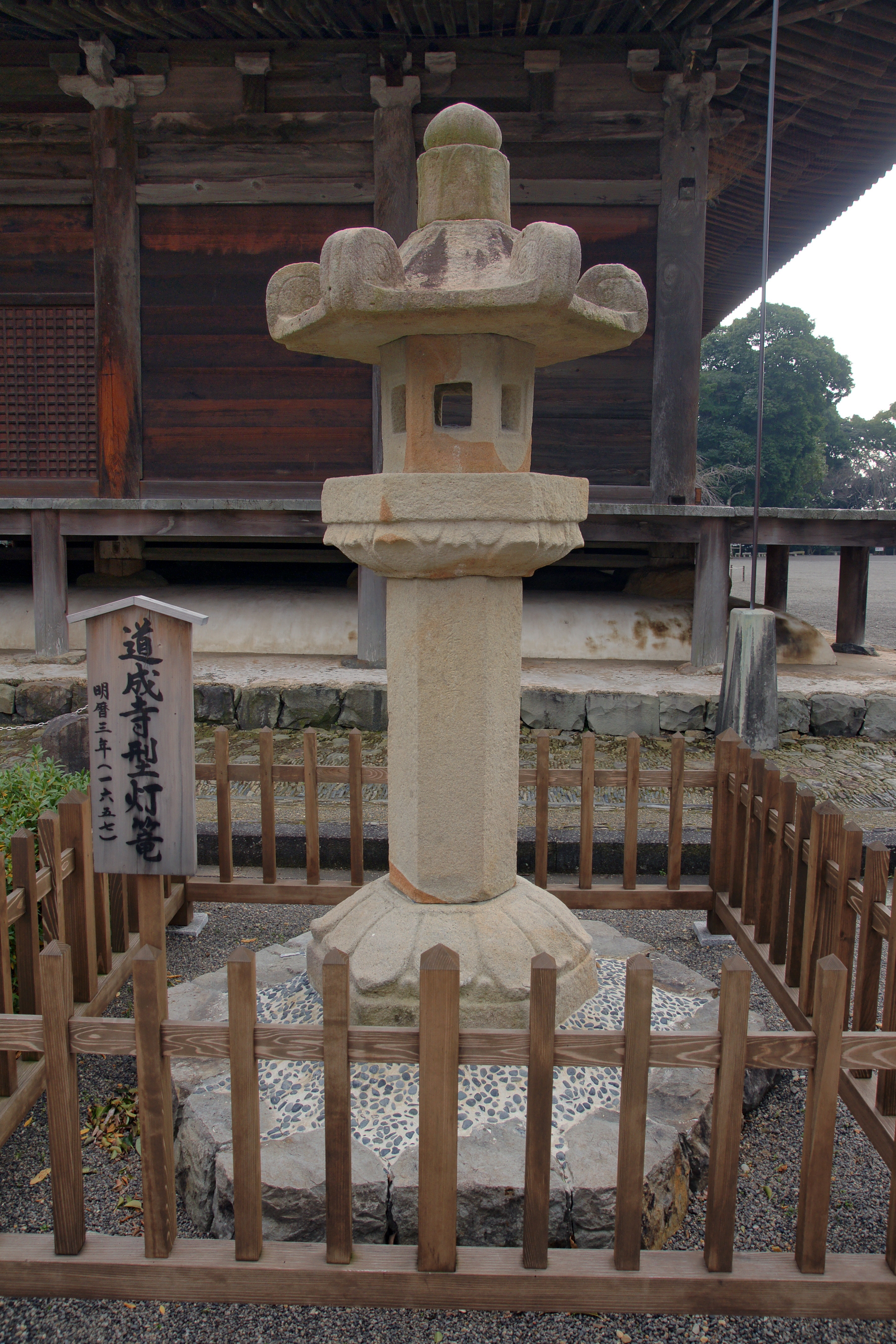 Dojoji, Hidakagawa, Wakayama prefecture, Japan